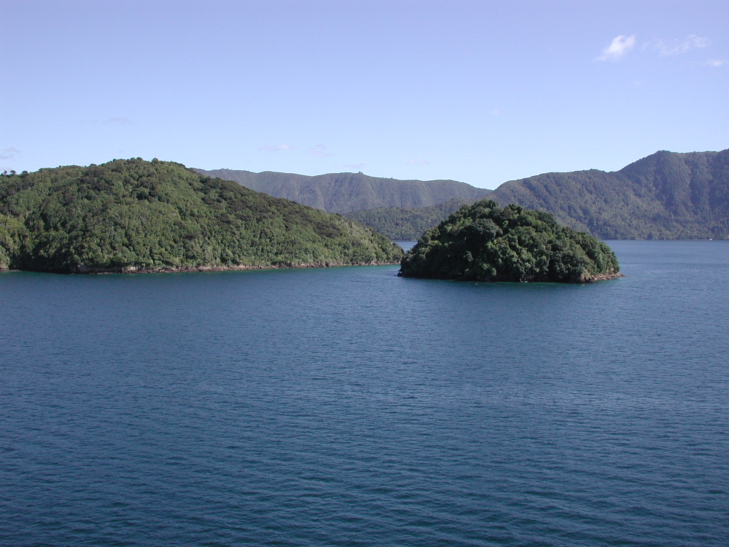 Allports Island in Queen Charlotte Sound, near Picton